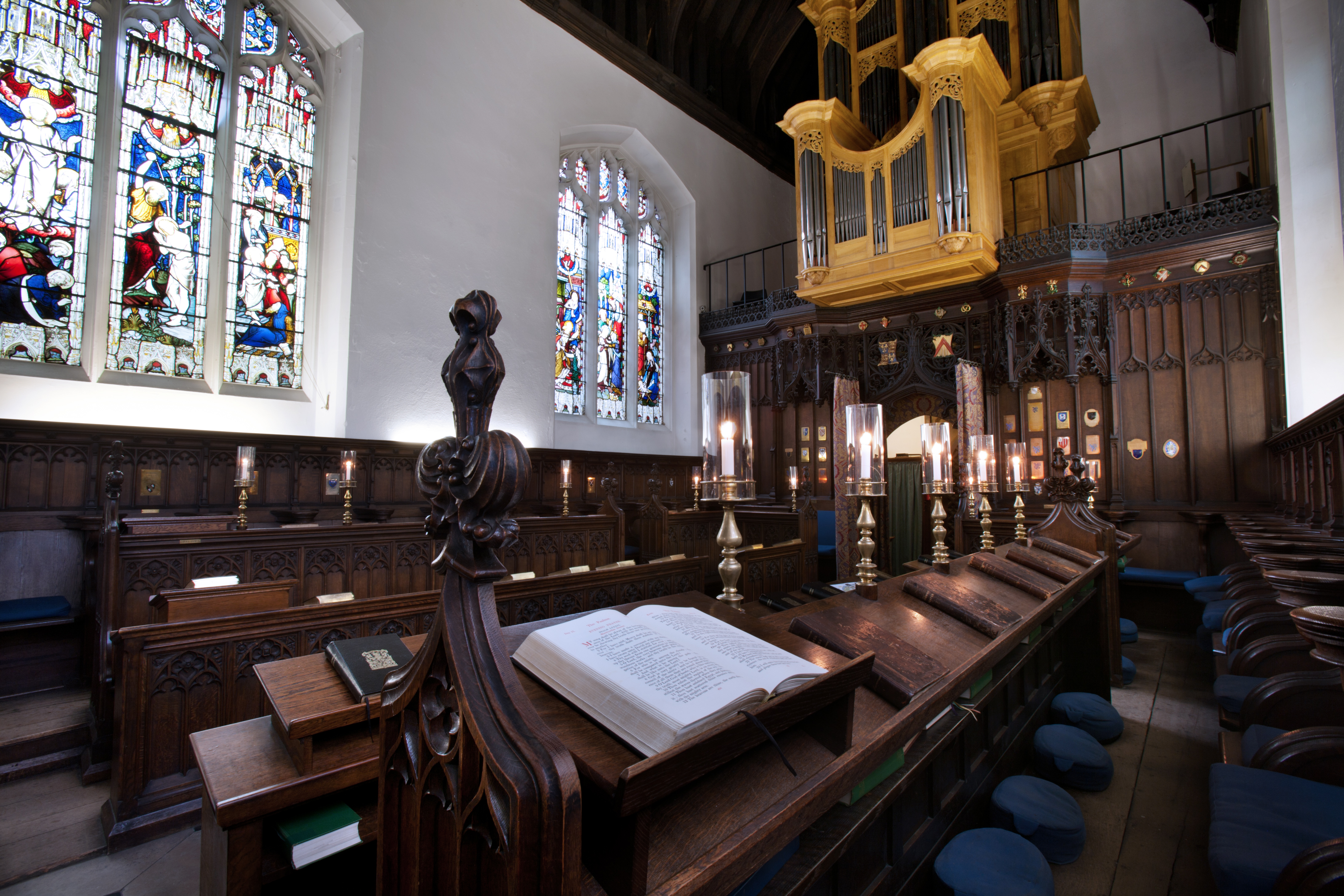 Magdalene College Chapel, Cambridge, UK